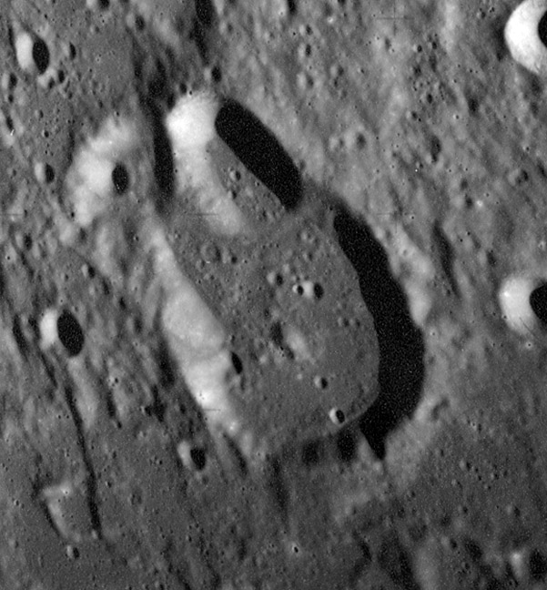 Crater Ritchey. Photo Apollo 16.